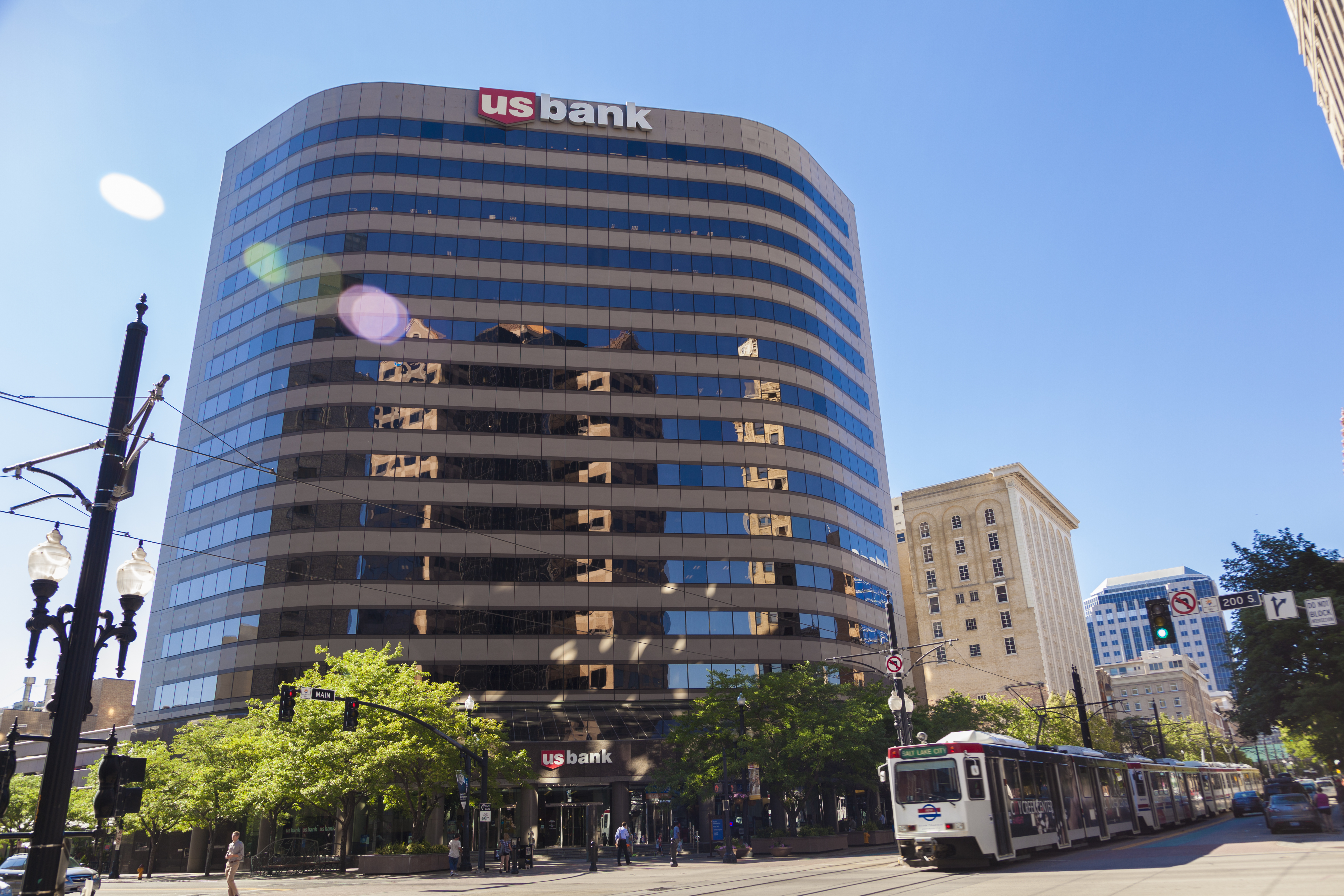 The US Bank Building, formerly Wells Fargo Plaza, in Salt Lake City, Utah, USA.